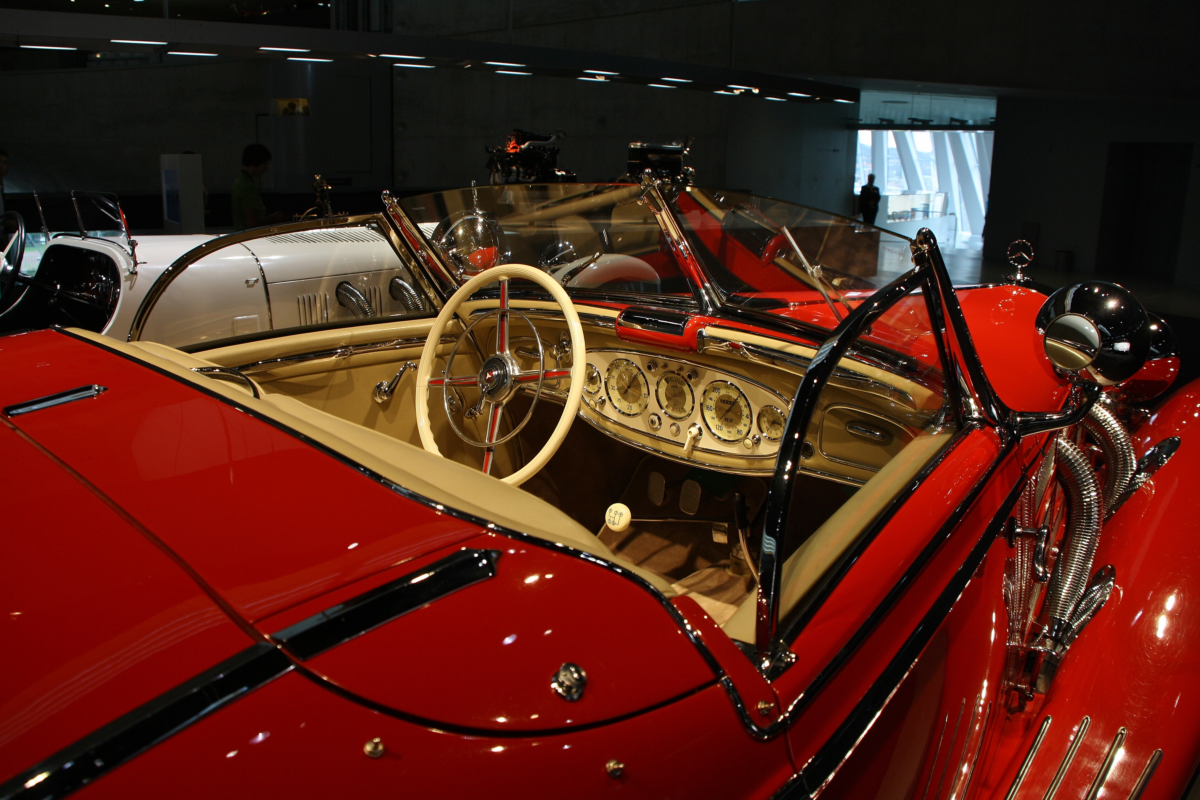 Photo of Mercedes-Benz 500K salon.